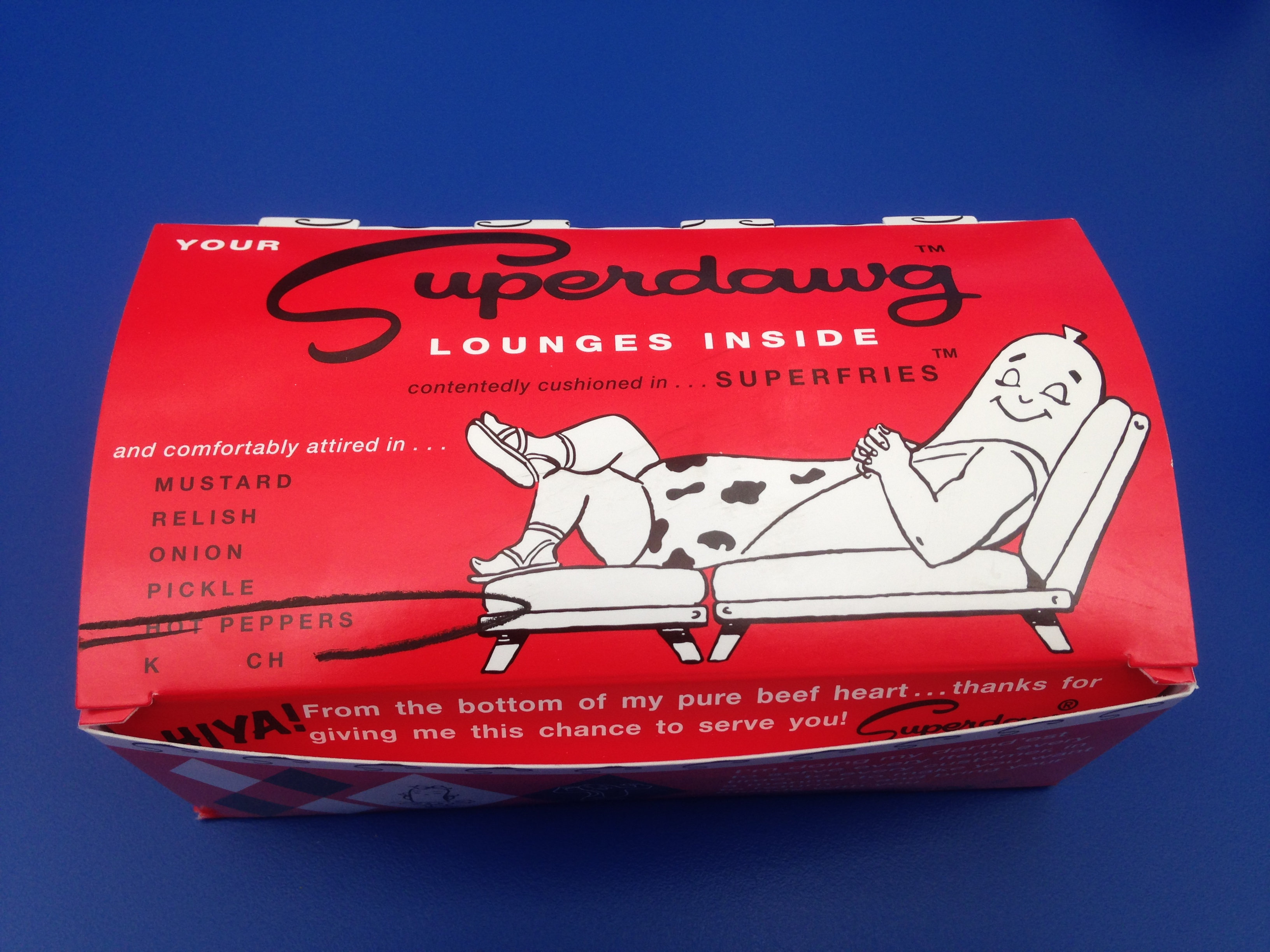 At Superdawg in Chicago and Wheeling, Illinois, the hot dog and French fries are served together in a distinctive cardboard box.